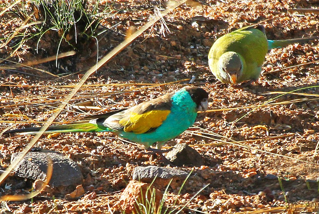 A pair of Hooded Parrots about 30 Km south of Pine Creek, Northern Territory, Australia. The male is in the foreground.